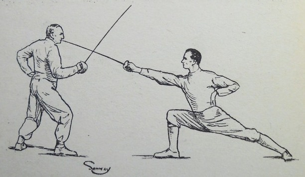 László Gerentsér (1873-1942), Hungarian fencing master and writer